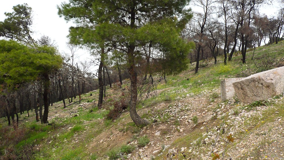 The picture depicts the burst are of Vrilissia forest.